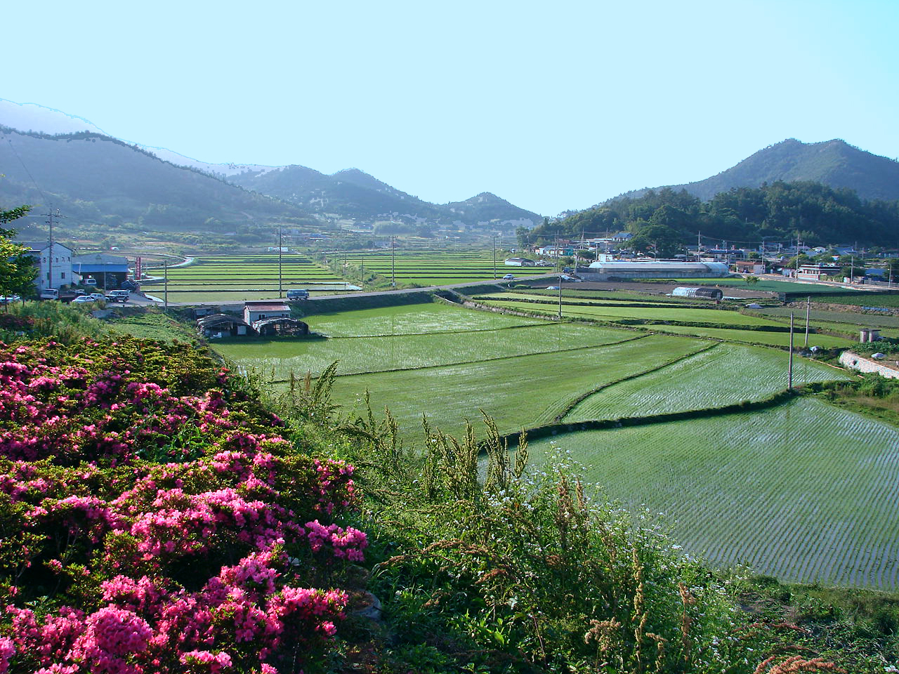 Rice fields in rural Goheung, Jeollanam-do, South Korea.